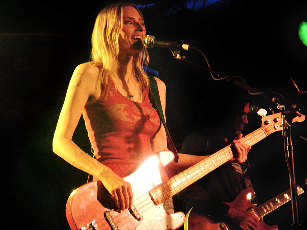 Aimee Mann in concert at the Belly Up Tavern, Solana Beach.